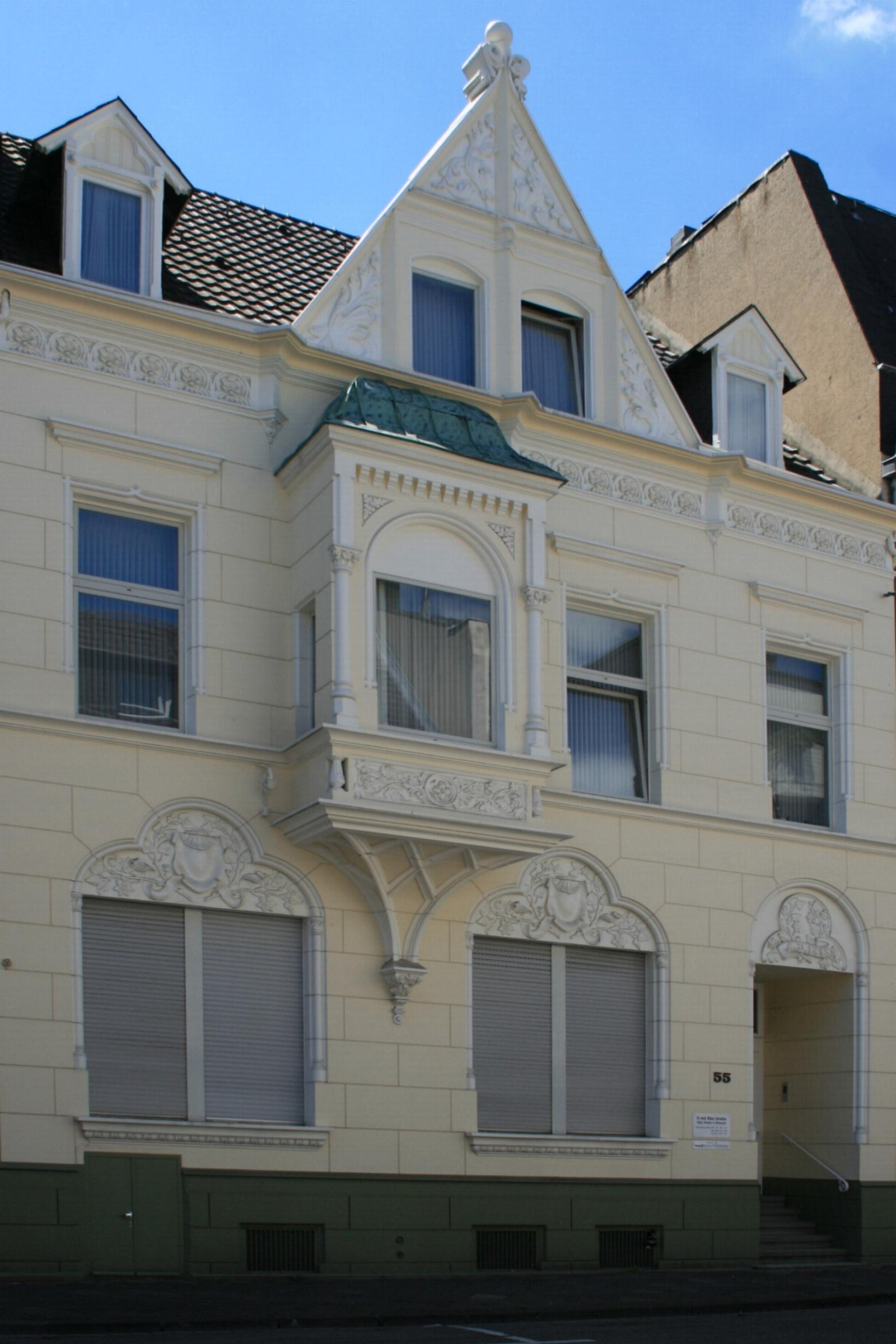 Cultural heritage monument No. Sch 040 in Mönchengladbach